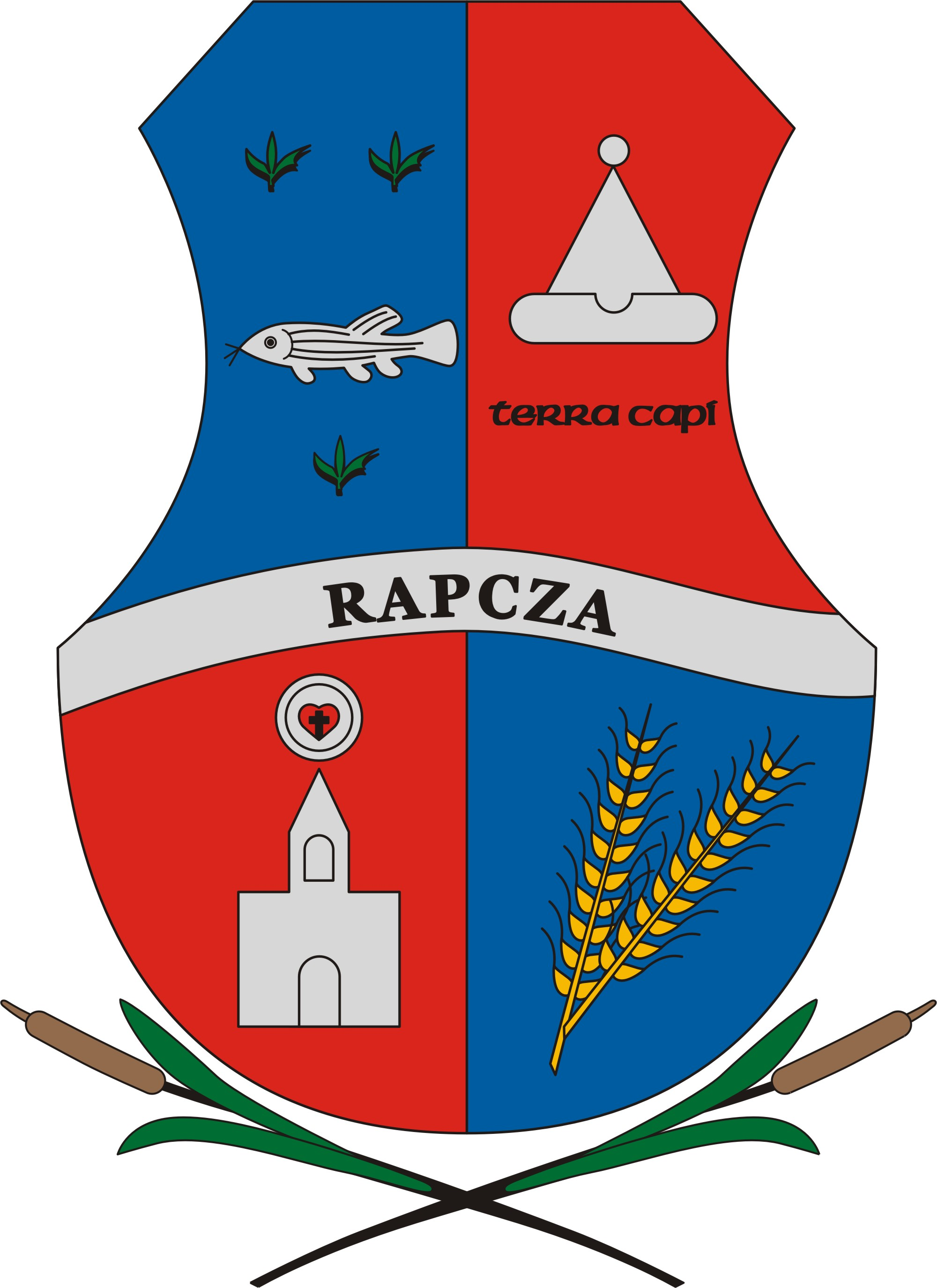 Coat of arms of Rábcakapi, Hungary